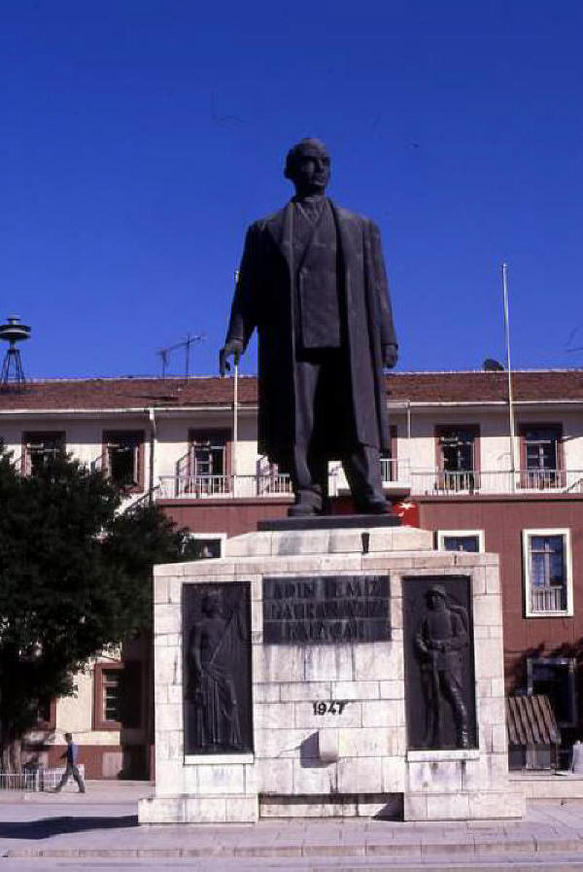 Statue of İsmet İnönü (Malatya Province)